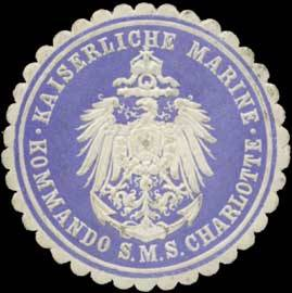 Sealing stamp Title: K. Marine Kommando S.M.S. Charlotte Description: Schiff Place: size: cm